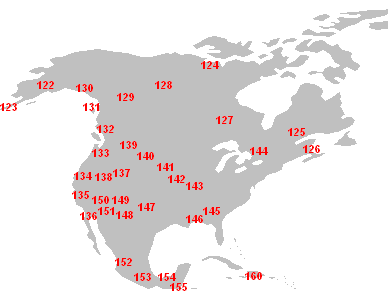 Distribution of standard cross-cultural sample cultures in North America